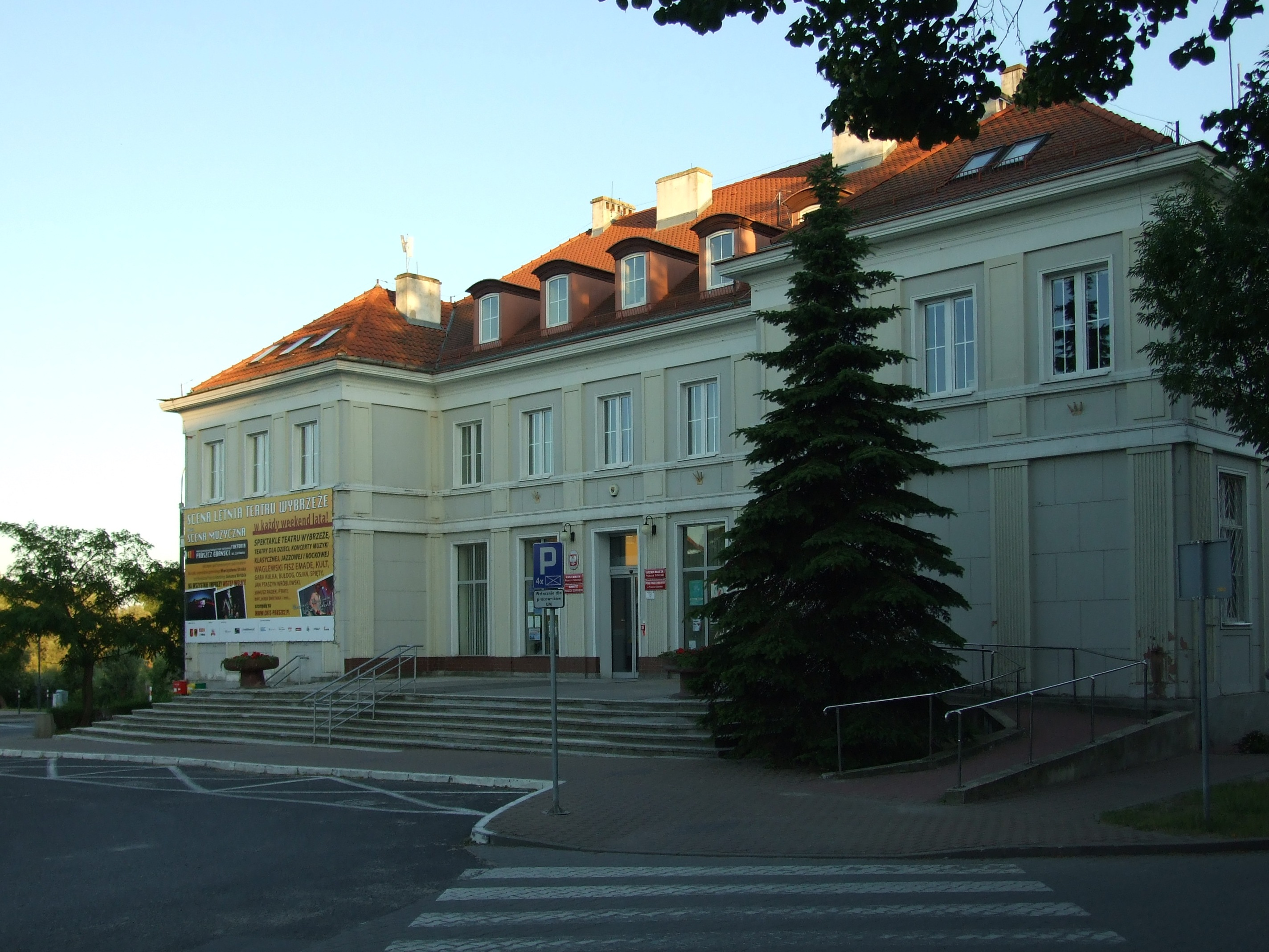 Town hall in the town of Pruszcz Gdański, Pomeranian voivodeship, Poland